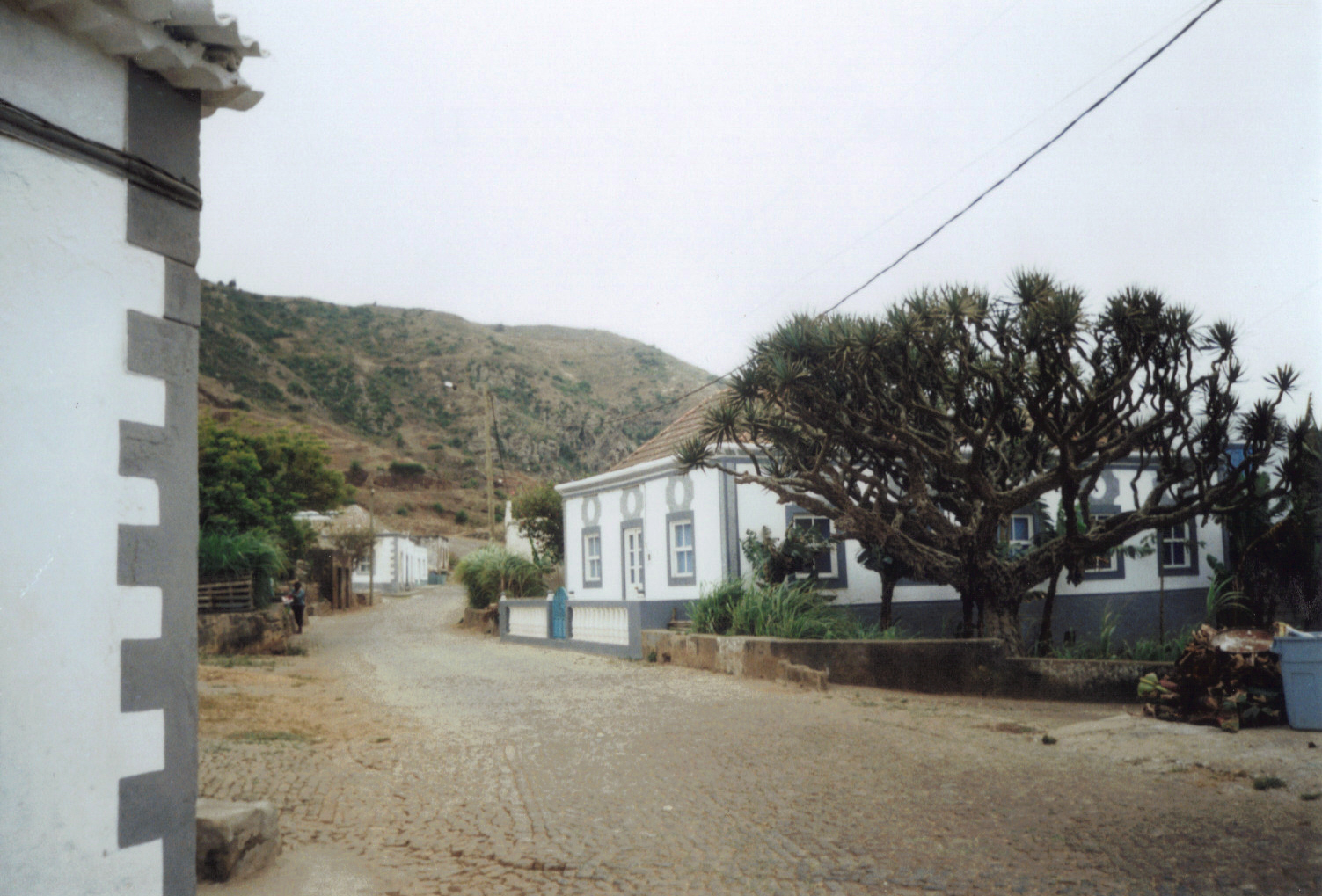 Dragon Tree and Main Street of Cova Rodela, Ilha Brava, Cabo Verde.